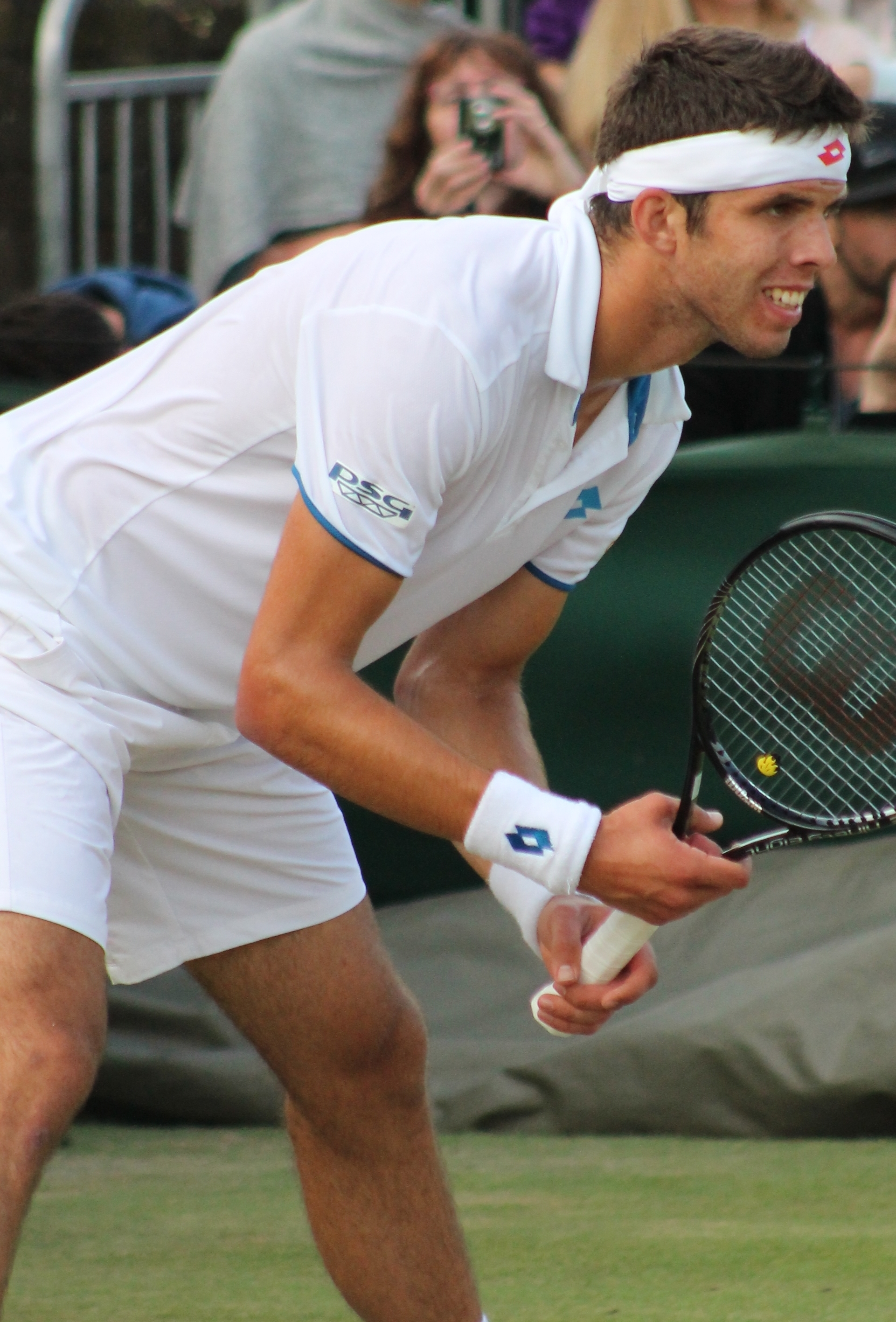 Vesely WM14 (3)